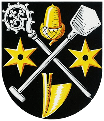 Coat of arms of Großheide (Lower Saxony, Germany)